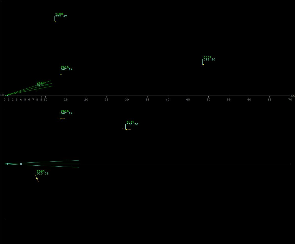 Aircraft azimuth and elevation position within the display coverage area are updated at 2 Hz